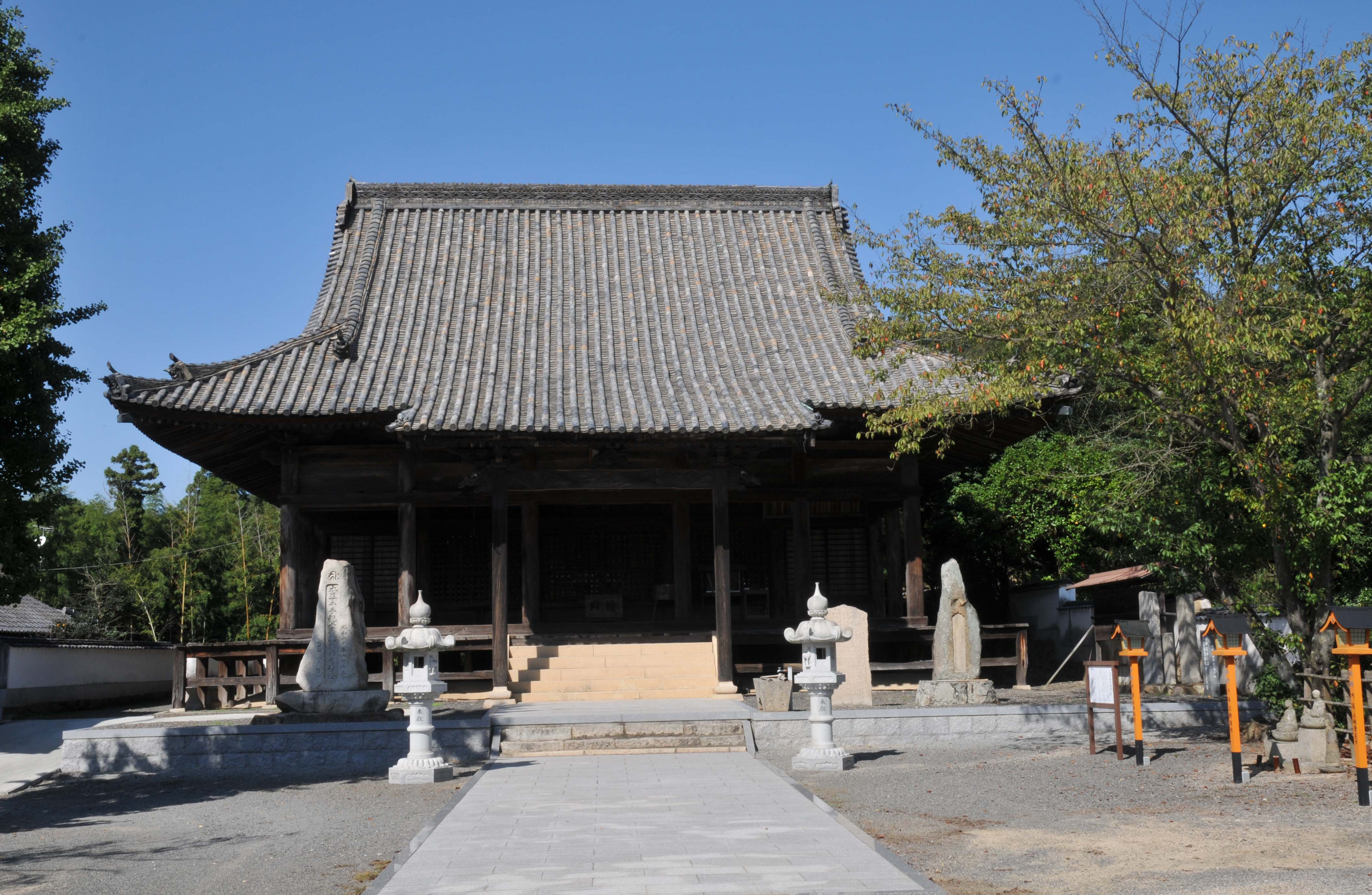 Main temple, Ōgashima-ji